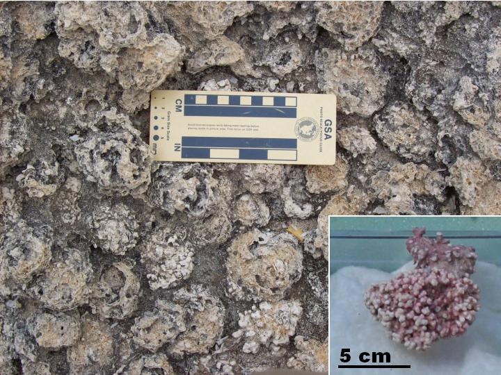 Fossil rhodolites from the Miocene of Menorca (Balearic Islands - Spain), and a present-day example of the same type of structure. the rhodolites are accretional sphaeroid-shaped structures made by red corallinae algae of various genera. Notice: this term is used also in the metamorphic rocks petrography to indicate a type of garnet, and the two contextes should not be confused.